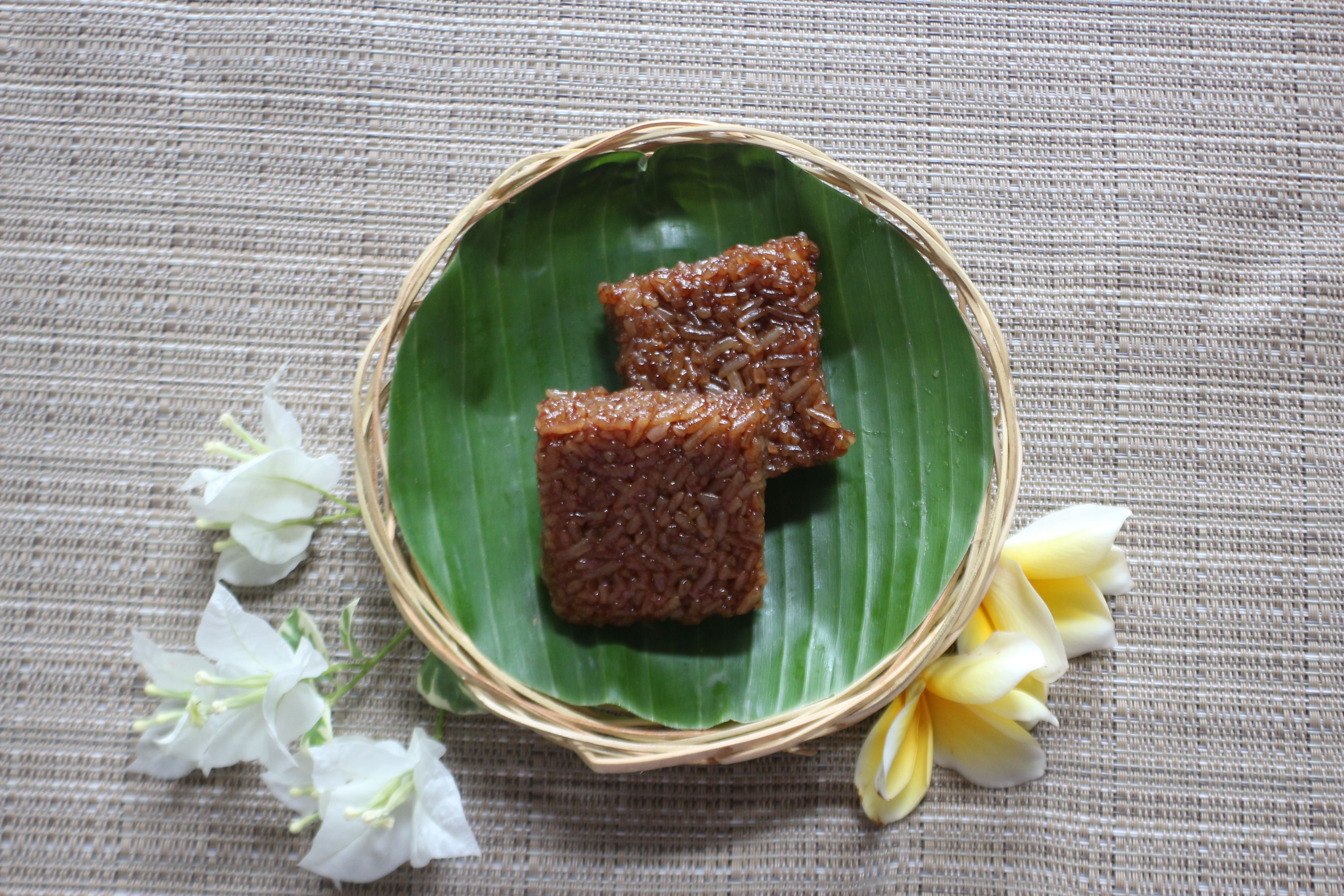 Wajik is one of balinese traditional snack food.